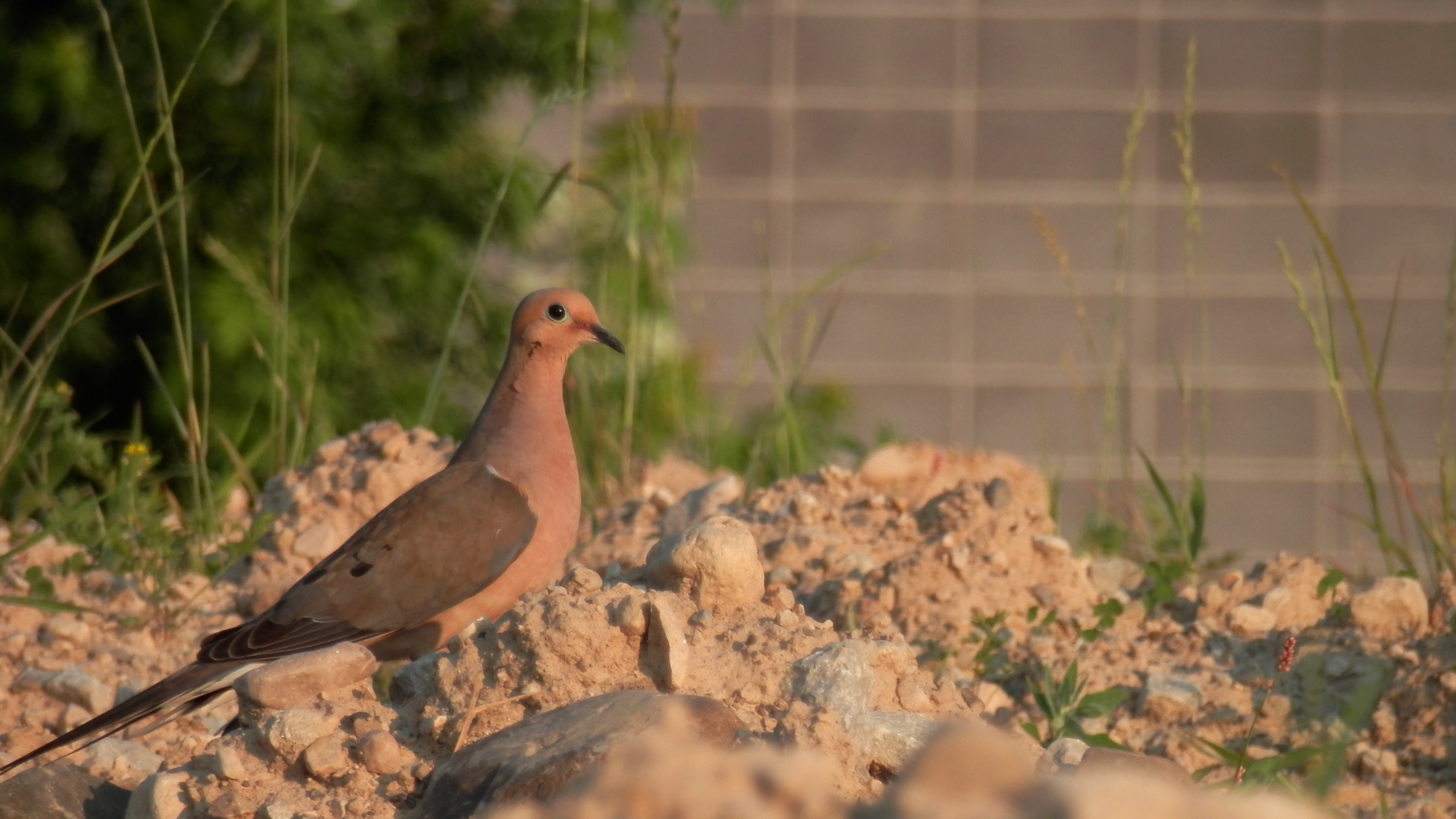 Mourning Dove (Zenaida macroura) in Guelph, Ontario, Canada.